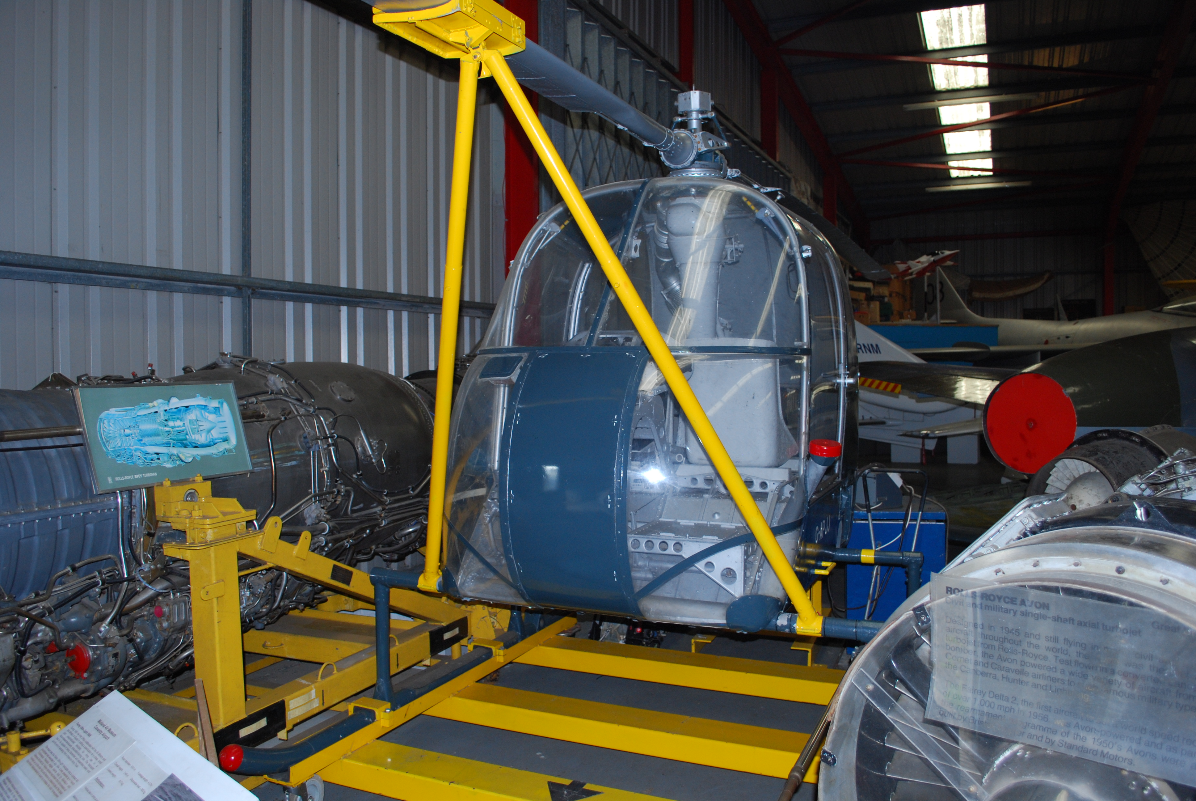 Fairy Ultra-light (with compressed air jets on the rotor tips hence no tail rotor), developed for the British Army. Prototype flew 1955, 6 built, and this one was tested by RN for shipboard deployment but no orders followed. At the Midland Air Museum, Coventry, 9/11.